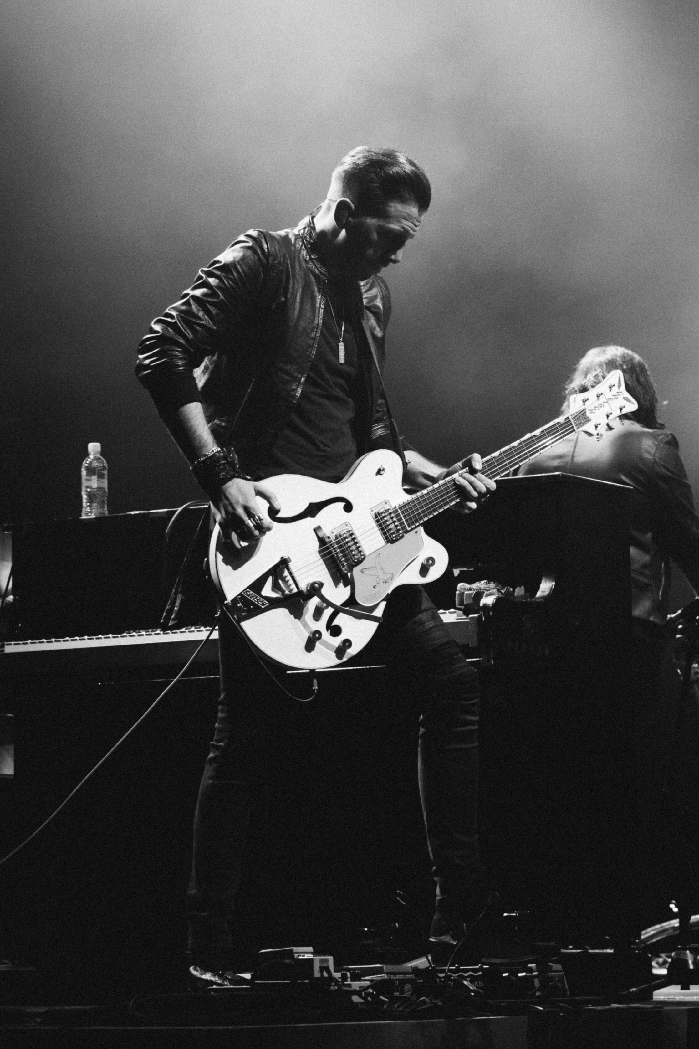 Chris Ketley playing guitar live on stage with Ellie Goulding